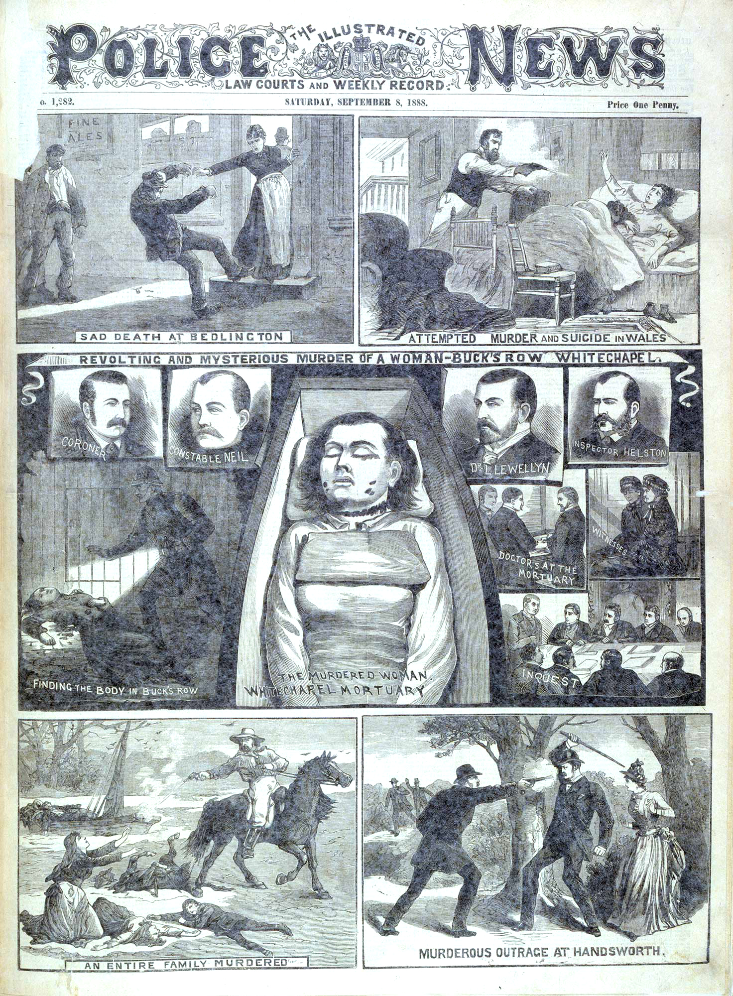 The Illustrated Police News - 8 September 1888 - Mary Ann Nichols